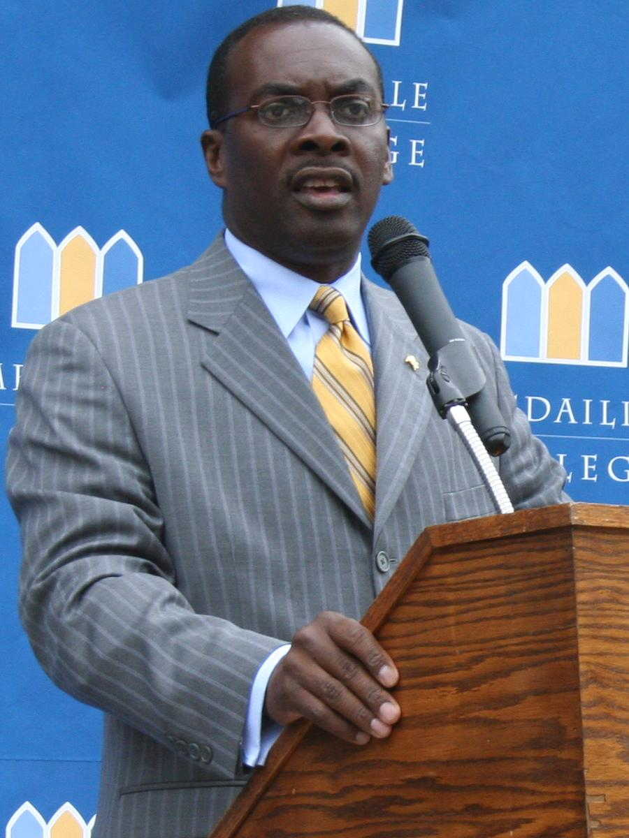 Byron Brown speaking at Medaille College